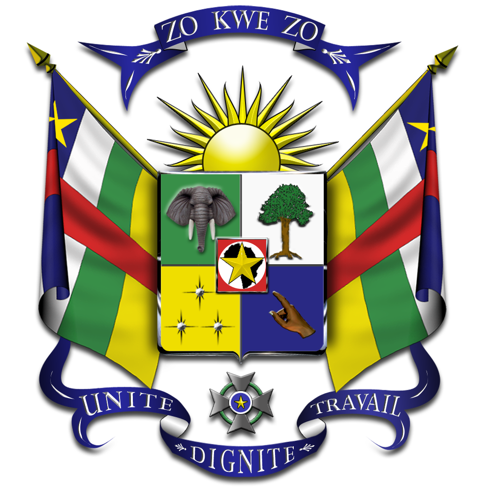 Coat of Arms of the Central African Republic